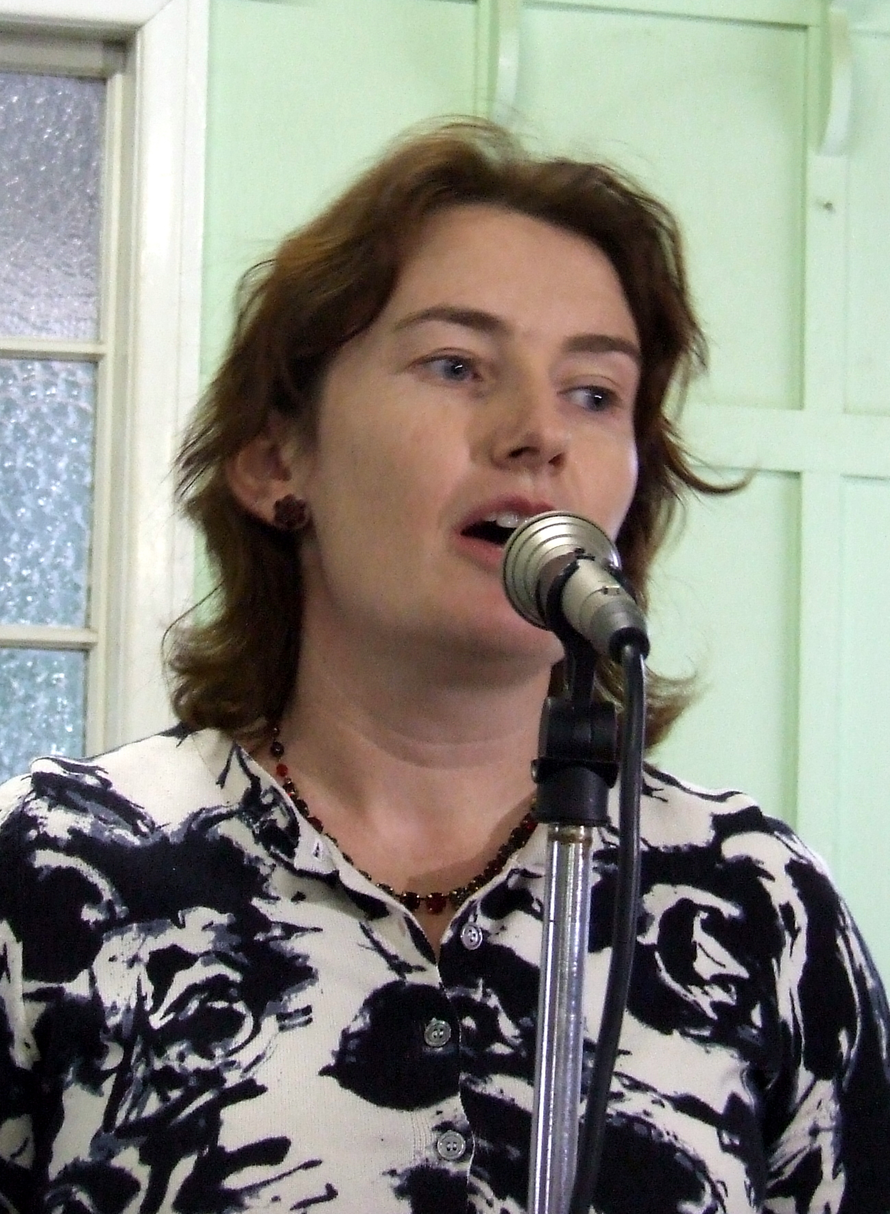 Queensland Transport Minister, Rachel Nolan, addresses a public meeting called in opposition to the proposed Yeerongpilly portal for the Cross River Rail project, September 18 2010 100918